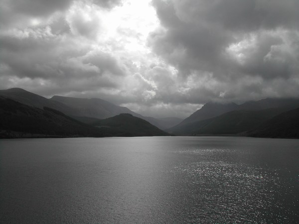 Ennerdale Water from Anglers Crag, looking South East